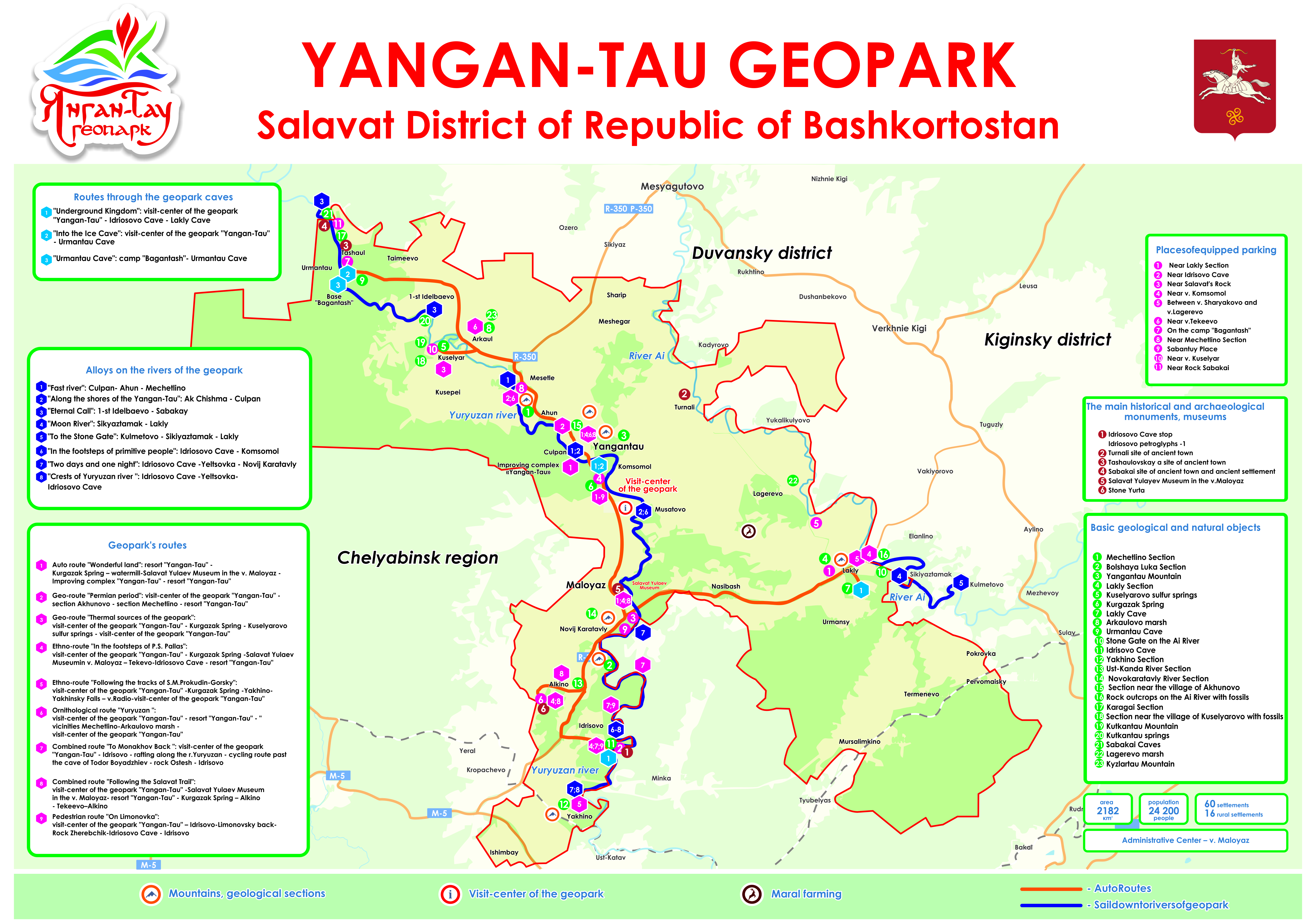 Map of Yangan-Tay